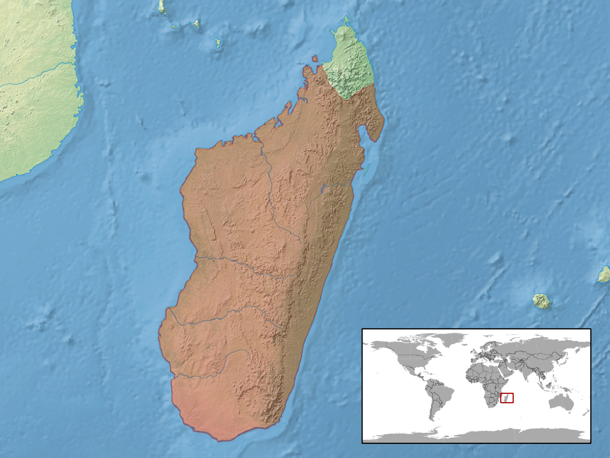 geographic distribution of Trachylepis gravenhorstii